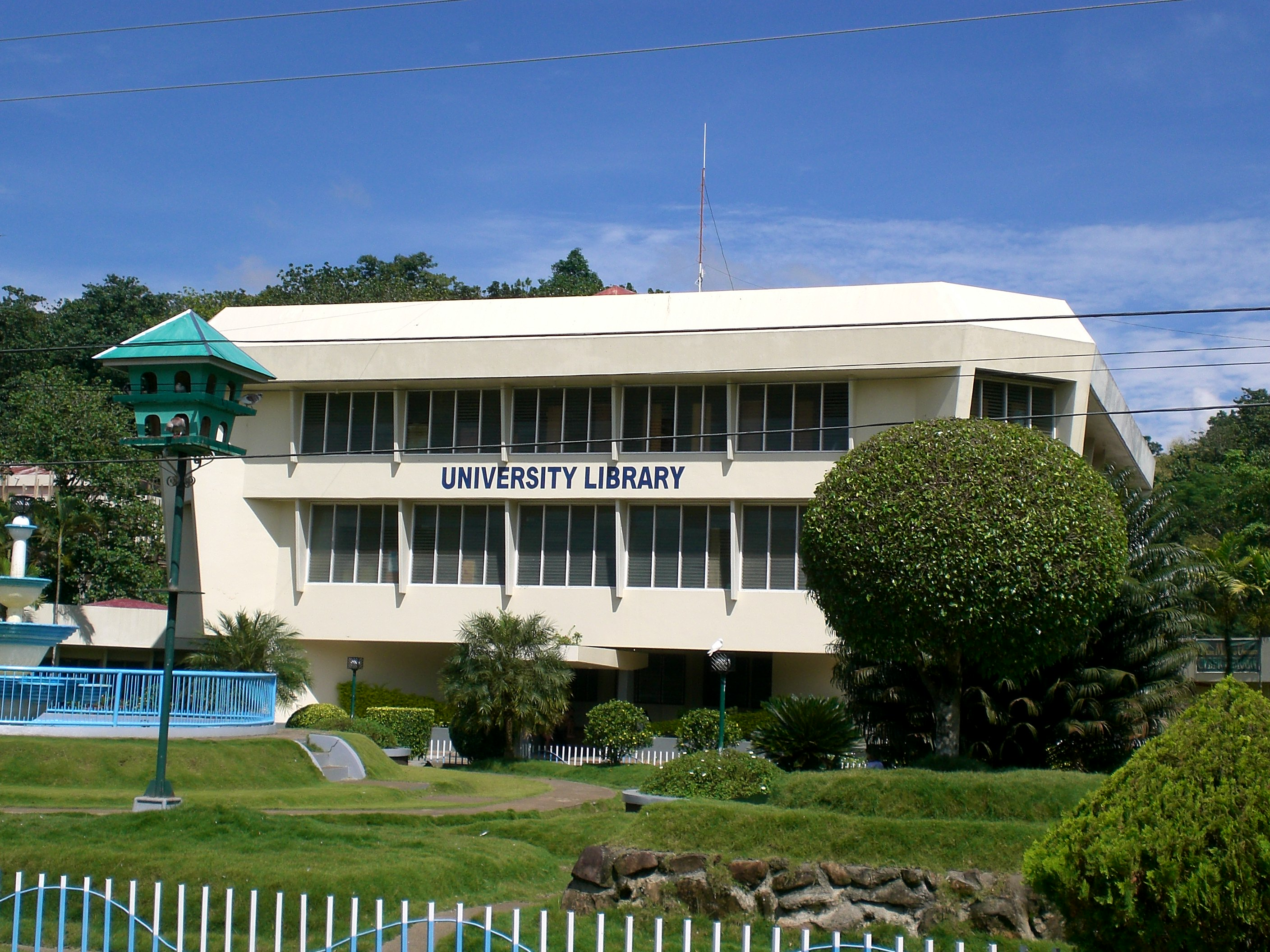 CMU Library